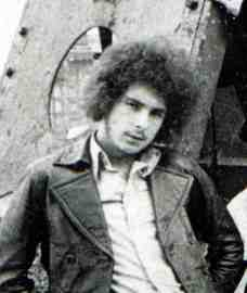 Musician Nick Graham in the Early 1970s.